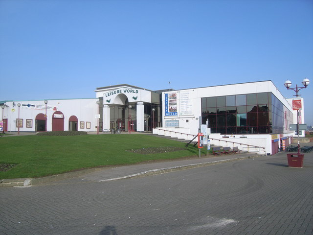 Leisure World leisure centre, Bridlington, East Riding of Yorkshire, England.